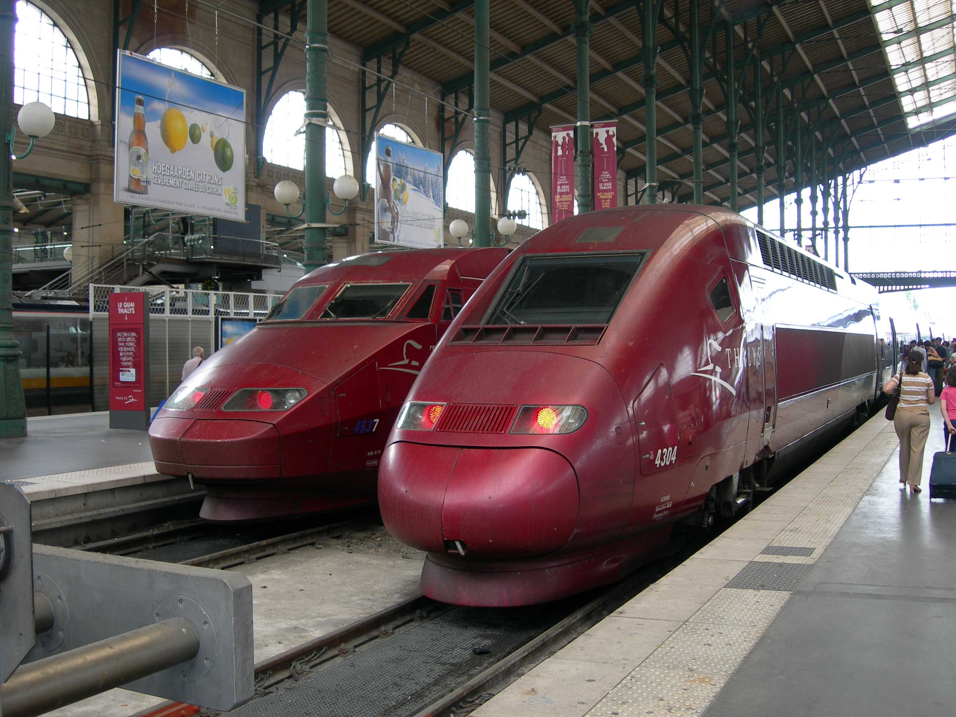 TGV Thalys in Paris Gare du Nord Station